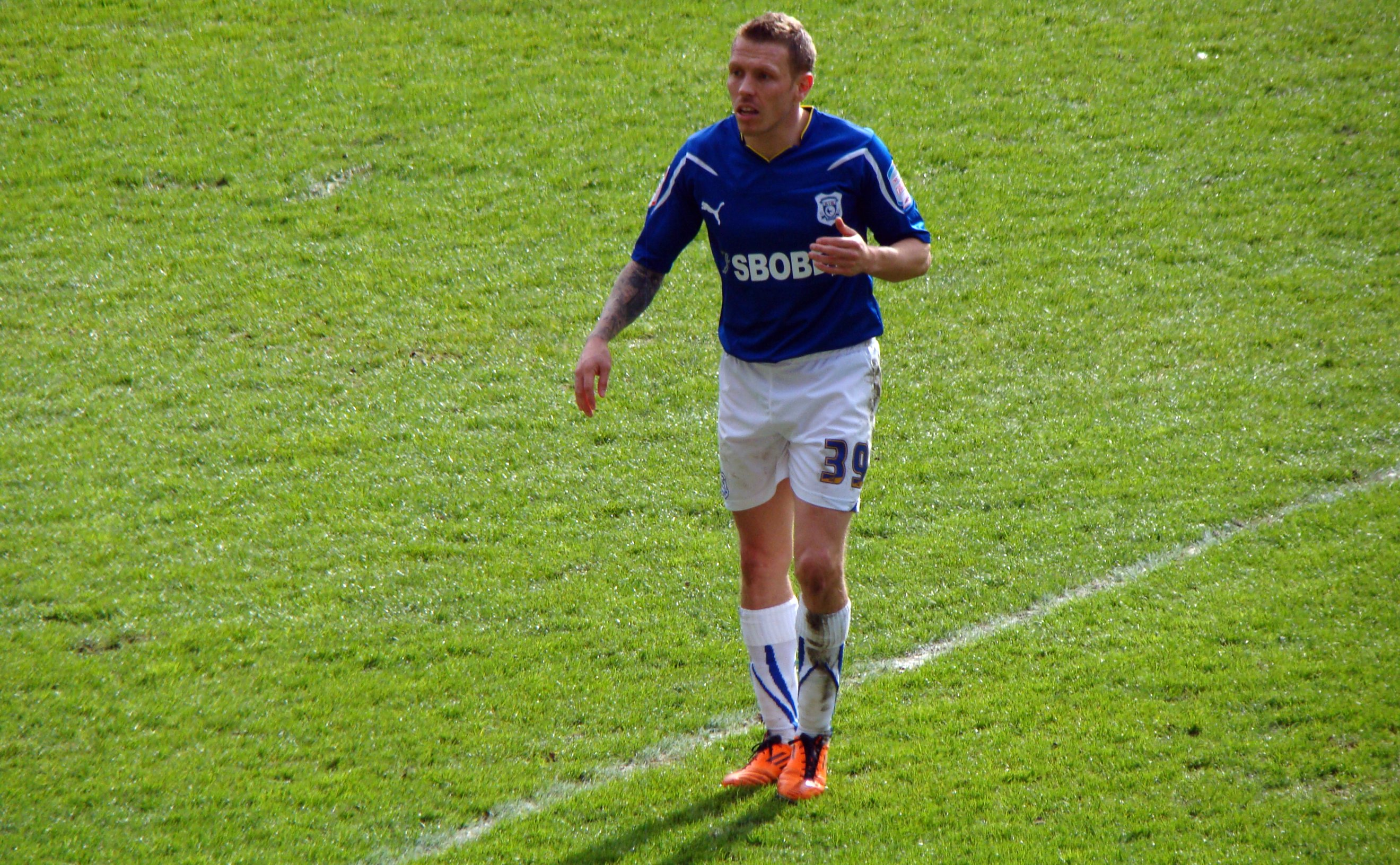 Craig Bellamy in Cardiff V Derby, Championship, Cardiff City Stadium, Cardiff, Wales